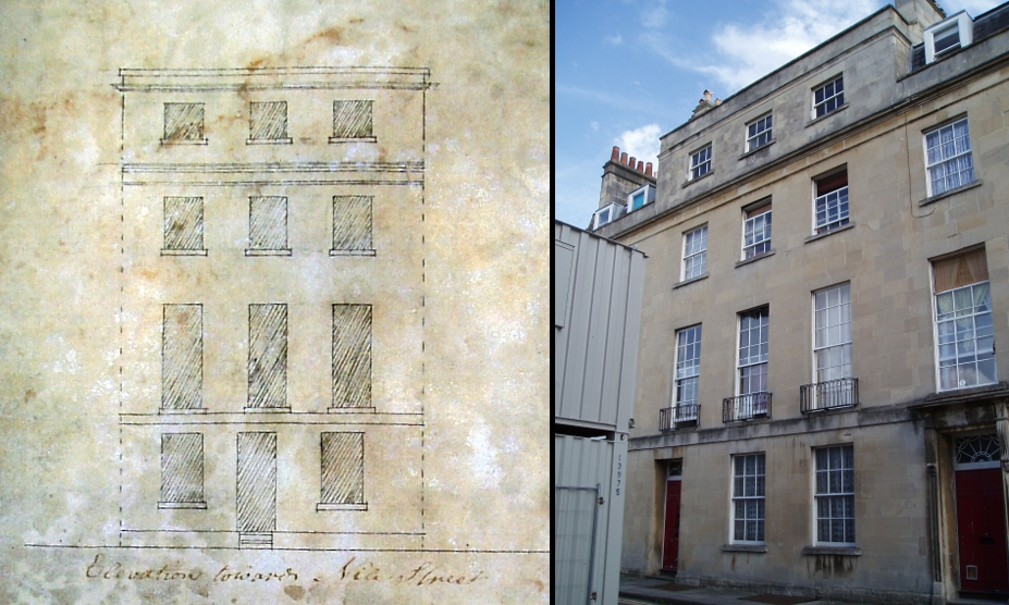 A comparison of an 1808 facade plan in the building lease for No. 2 Nile Street, Bath with the building's facade today.